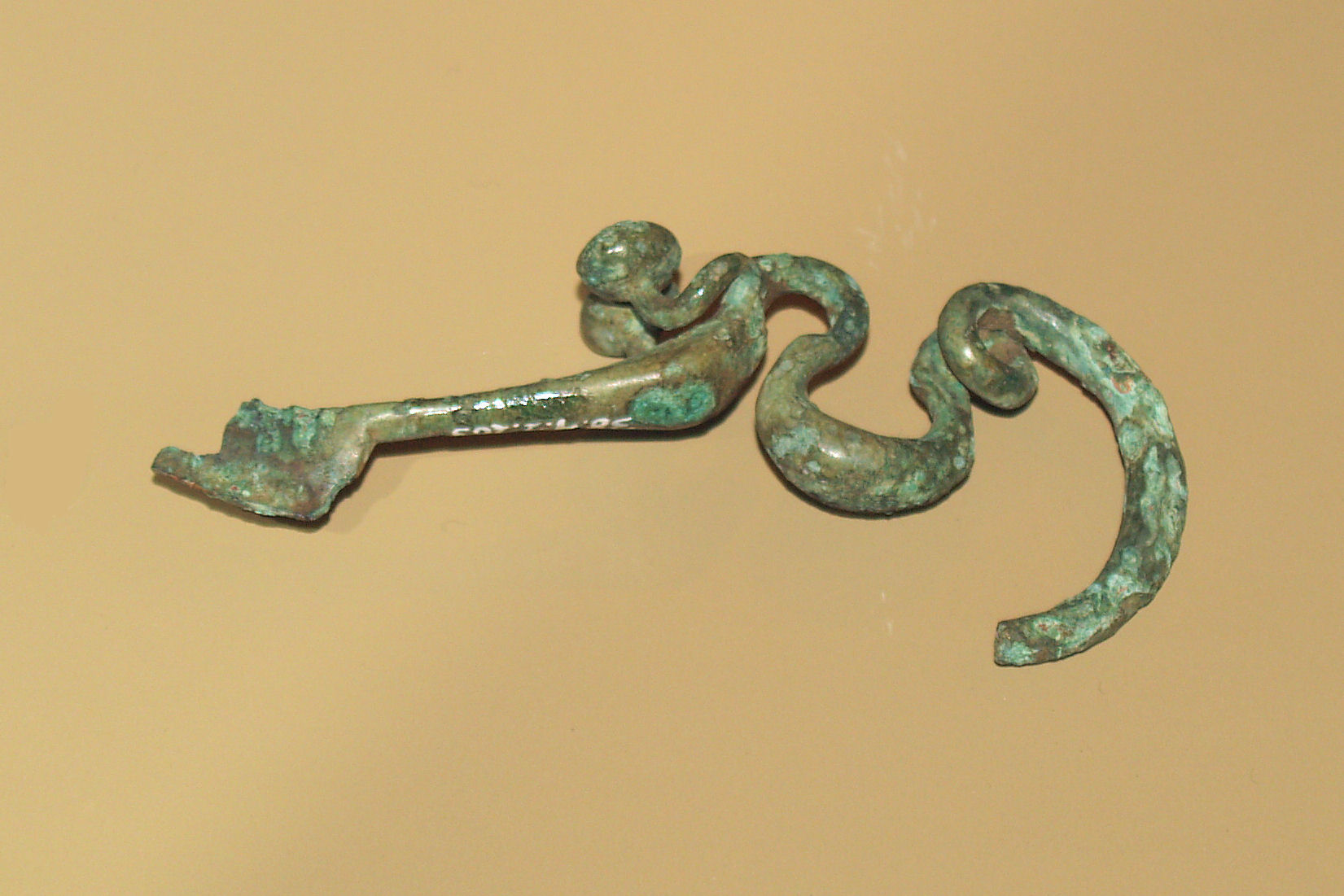 Dragon-Fibula, Iron Age, archeological site Mels